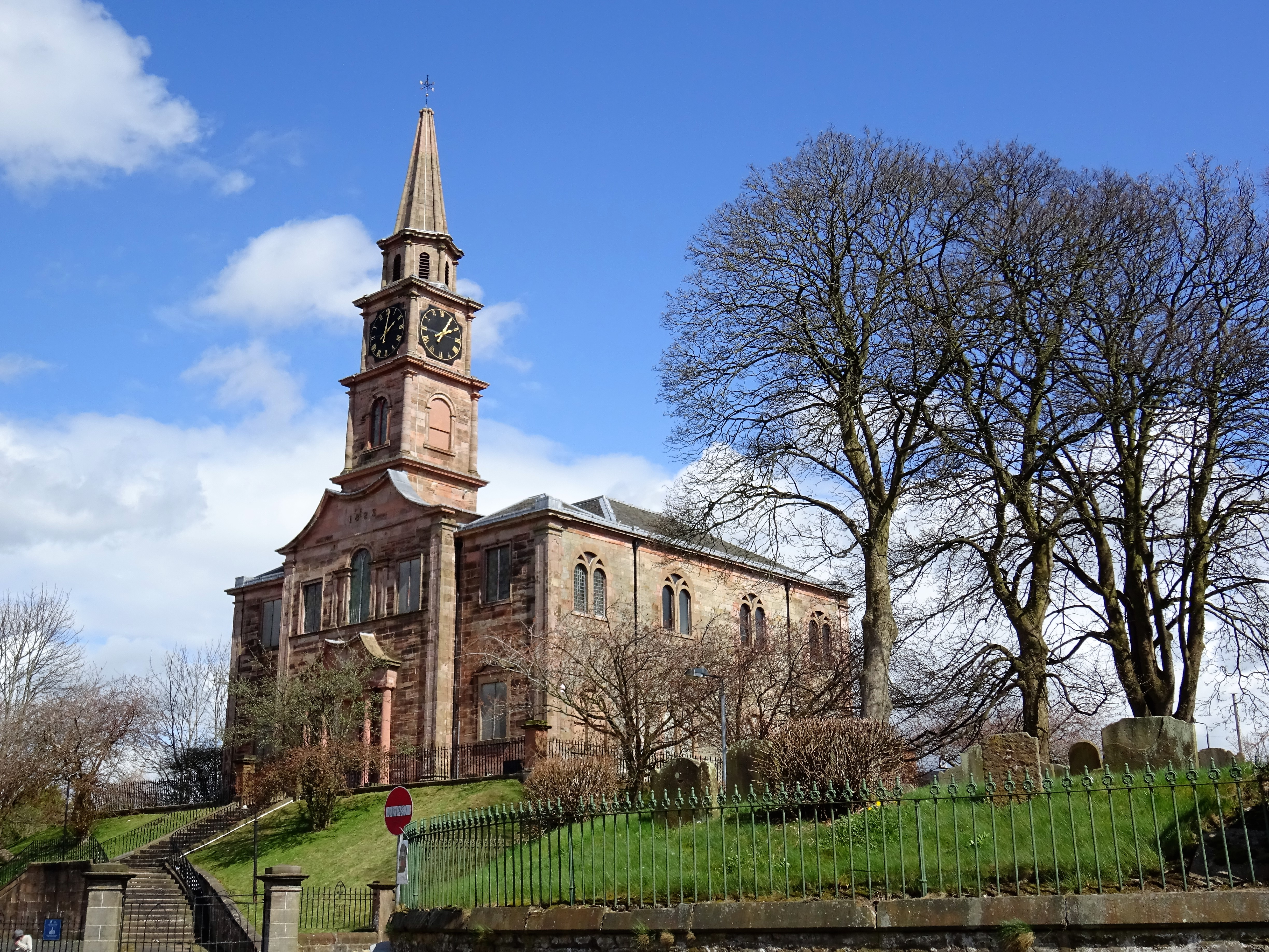 Riccarton Parish Church and cemetery, East Ayrshire - view from Old Street.